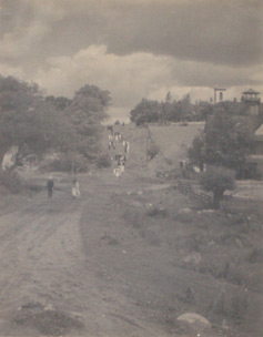 Laura Gilpin Sunday After Church,1919 Vintage platinum print Image: 9 3/8 x 7 3/8"; Mount: 18 x 14"